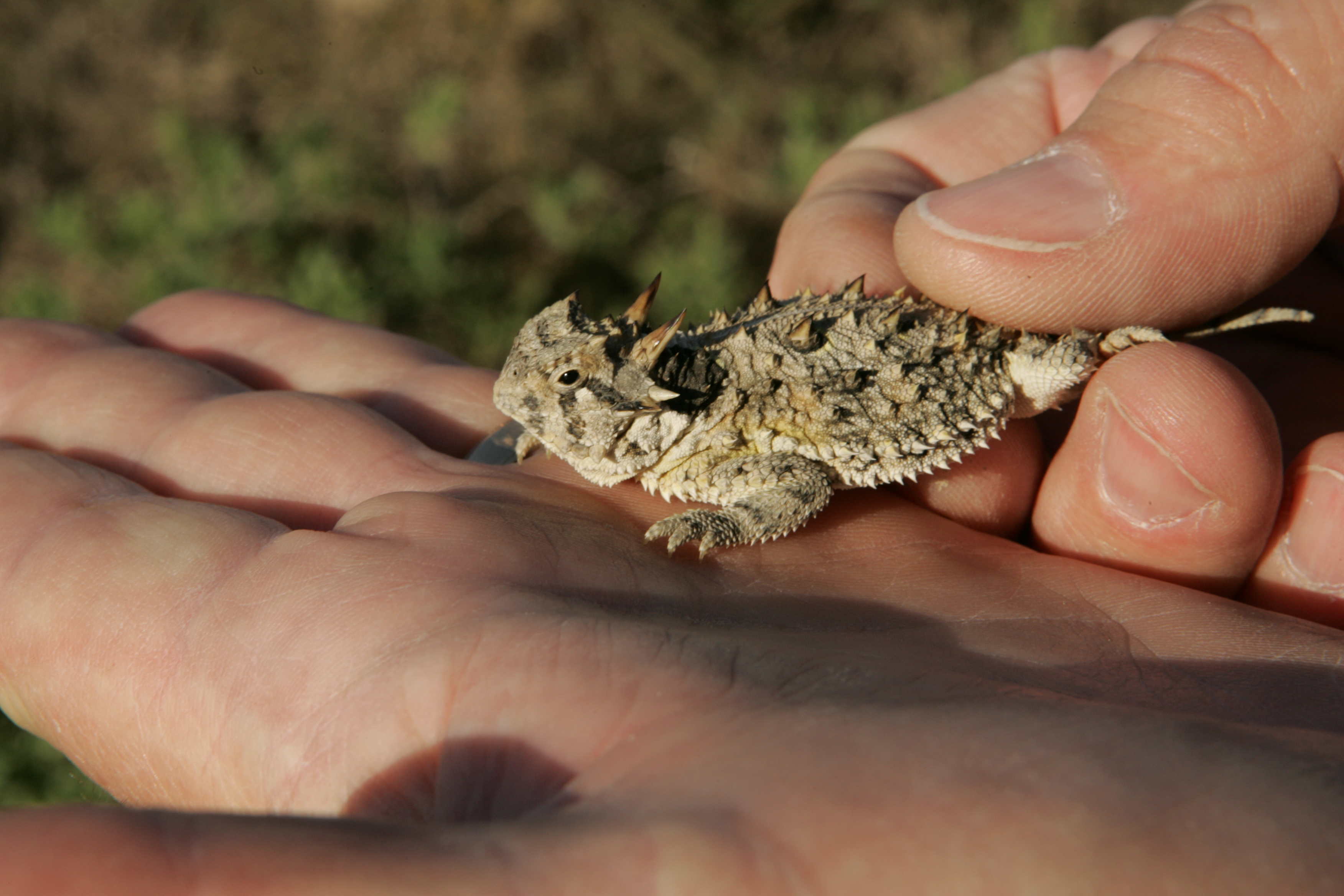 A very small Texas horned lizard ('horned frog') held in palm of hand